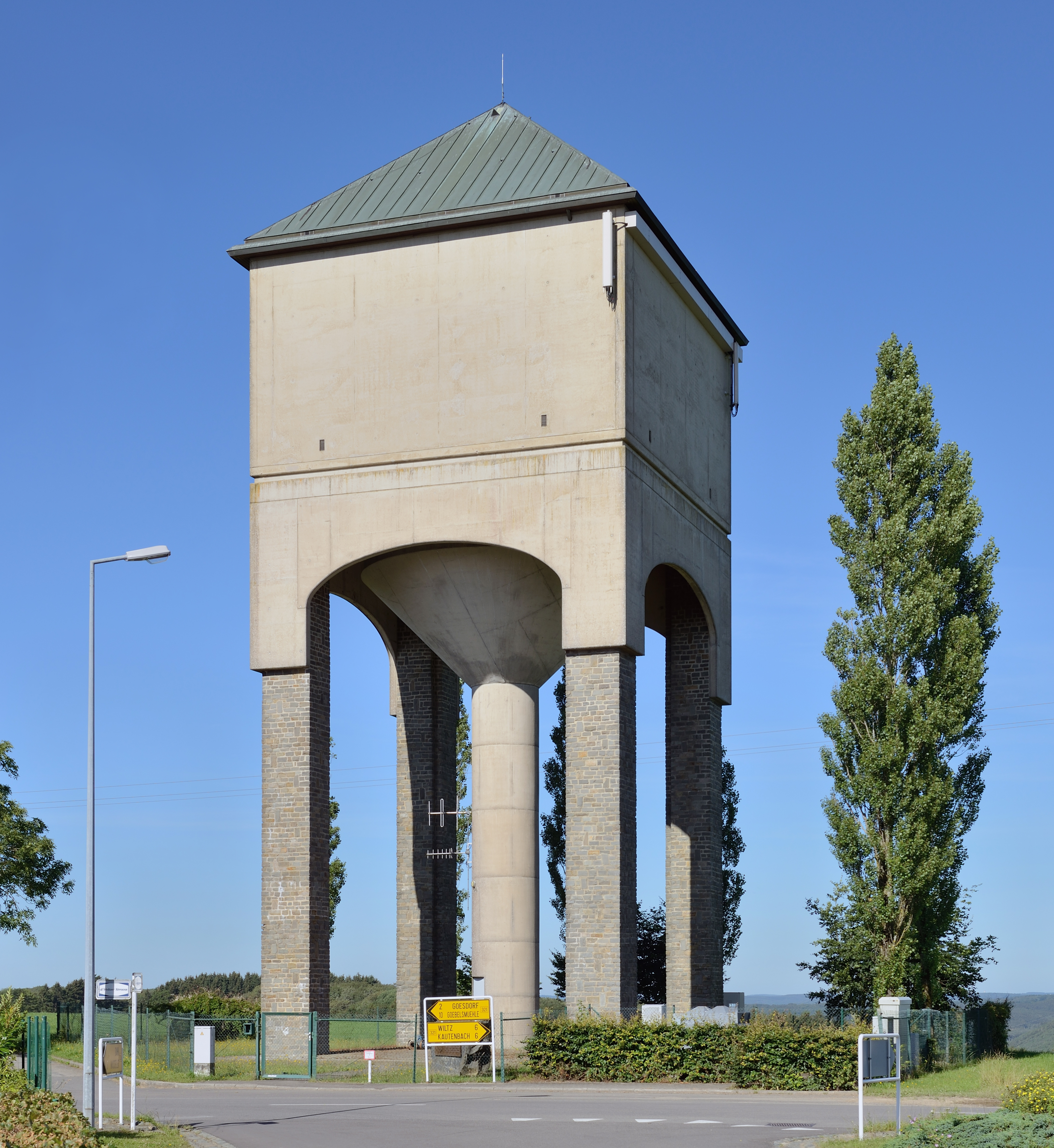 Water tower at Dahl, Luxembourg